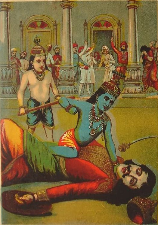 India Old Litho KRISHNA KILLS KANSA 2639 1910's Size 5in x 7in. CONDITION: Very Good. Condition as per the scan